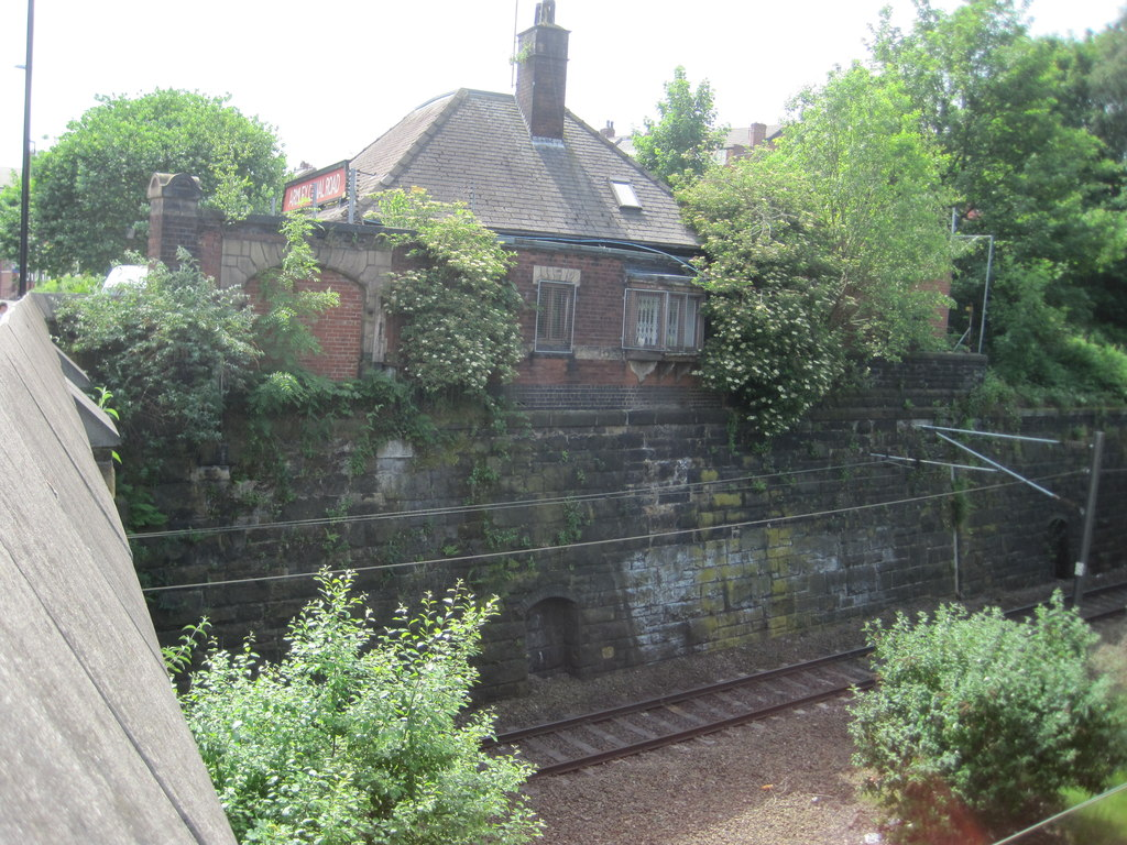 Armley Canal Road railway station (site), YorkshireOpened in 1848 on the Midland Railway's line from Leeds to Bradford Forster Square, this station closed in 1965. View across the site of the platforms to the street level building. The arch where the wooden footbridge led down to the platforms could still be seen when this image was taken.